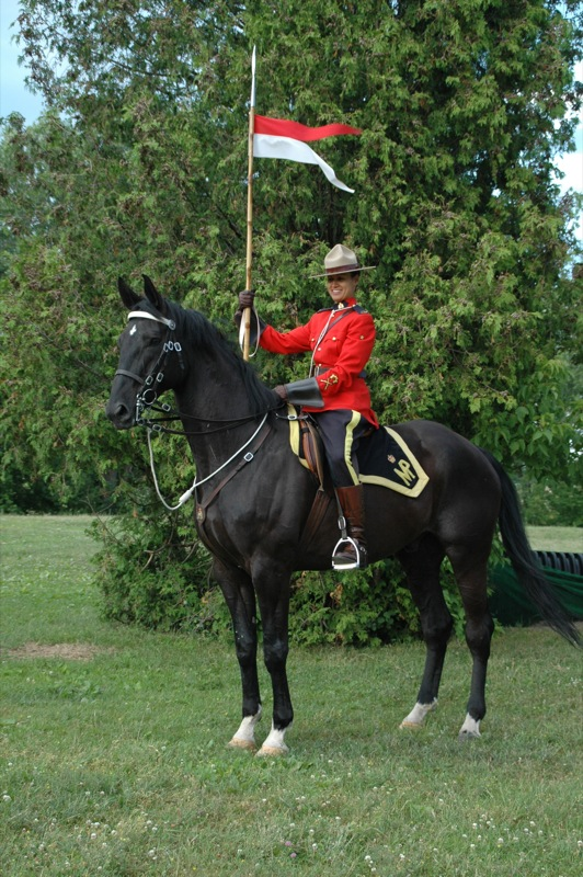 What a photogenic pair! Shown here at the RCMP stables in Ottawa just before the riders headed off for the Sunset Ride.